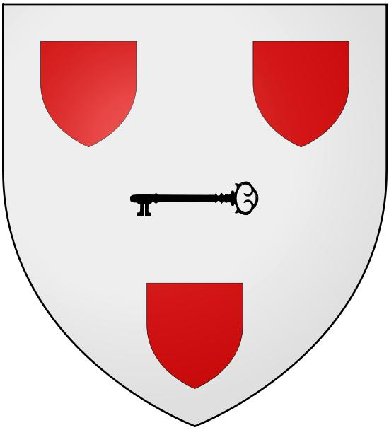 arms of the Hay of Alderston, a branche of Clan Hay Blazon: a key fesswise ward to dexter between three escutcheons Gules. ref.: Shields of Clan Hay by Official Website of the Clan Hay